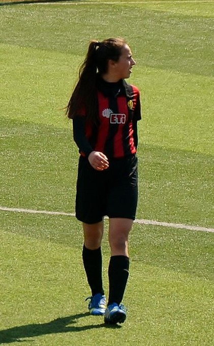 Birgül Sadıkoğlu playing for Eskişehirspor (women) in the 2014-15 season.